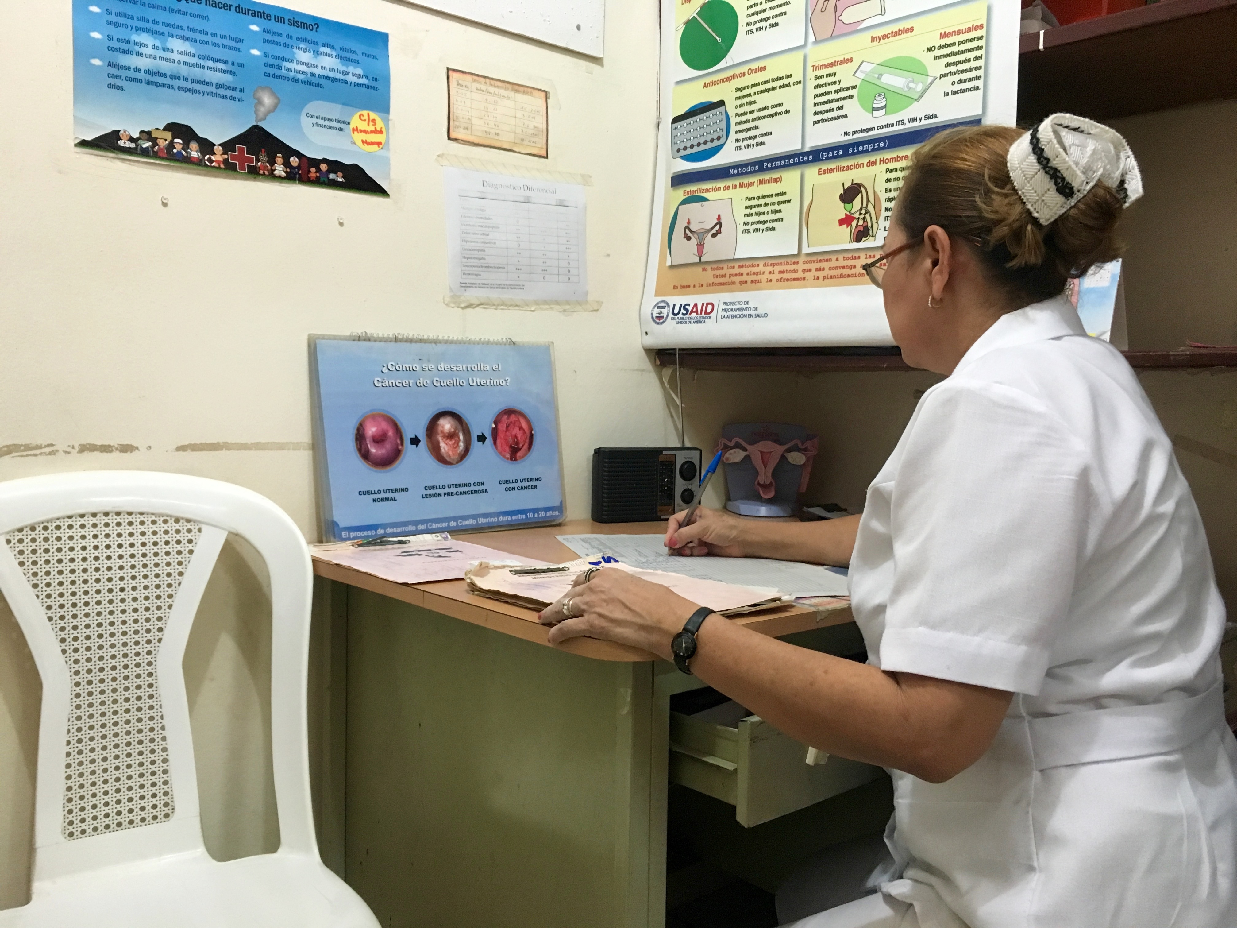 Nicaraguan nurse preparing to see a patient